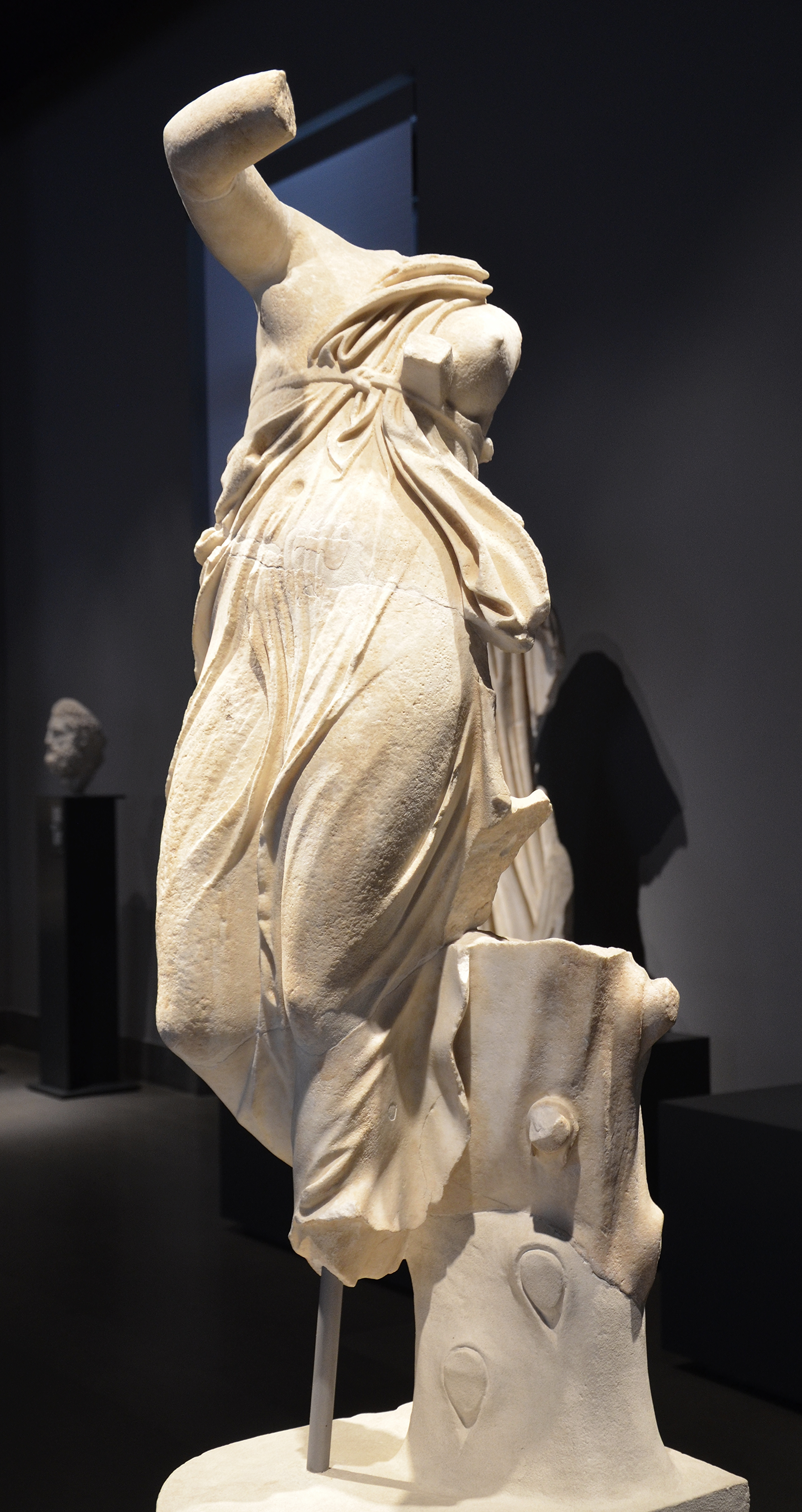 Dancing female figure, thought to be a portrait of Praxilla of Sikyon (a Greek lyric poet), from the portico of the Triclinium of the Three Exedras at Hadrian's Villa, 117 - 138 AD, Palazzo Massimo alle Terme, Rome